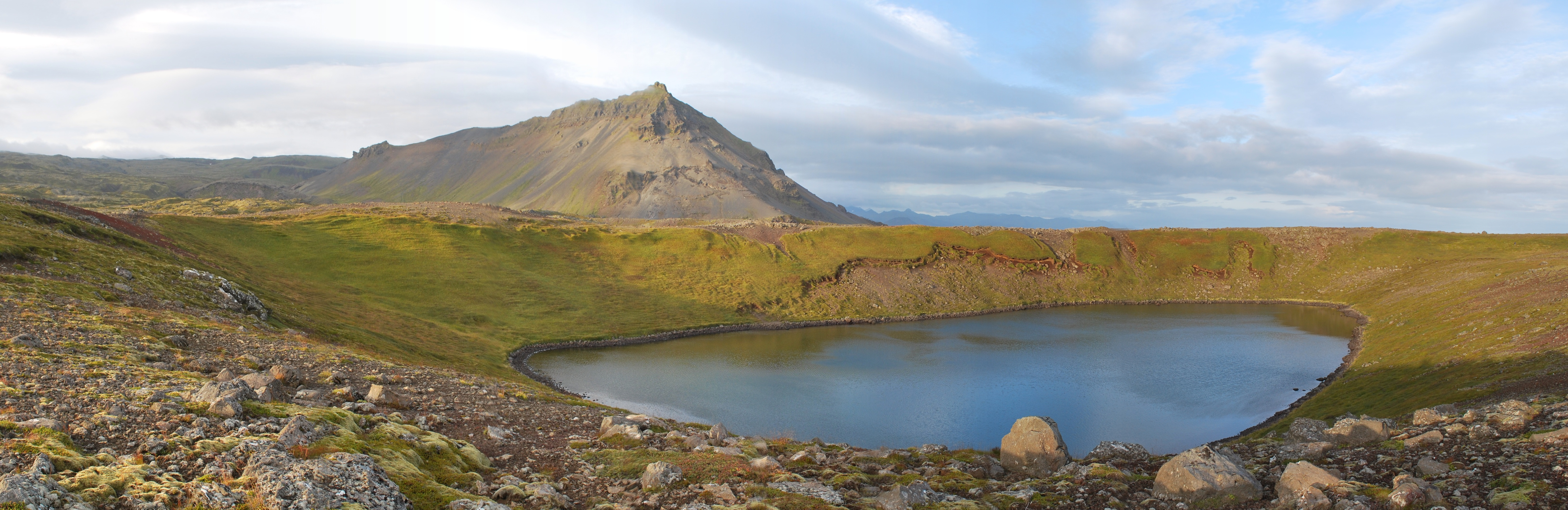 Crater lake Bardarlaug forming via volcanic explosion in Snæfellsnes area, Iceland